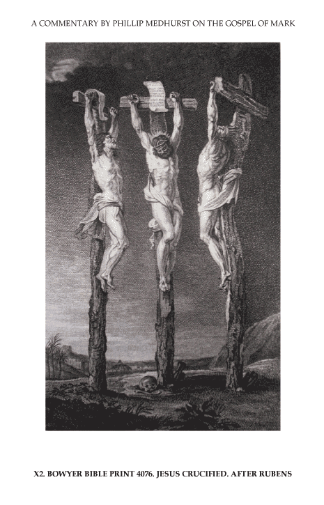 Jesus crucified. In the Bowyer Bible in Bolton Museum, England. Print 4076. From “An Illustrated Commentary on the Gospel of Mark” by Phillip Medhurst. Section X. the crucifixion. Mark 15:22-37.